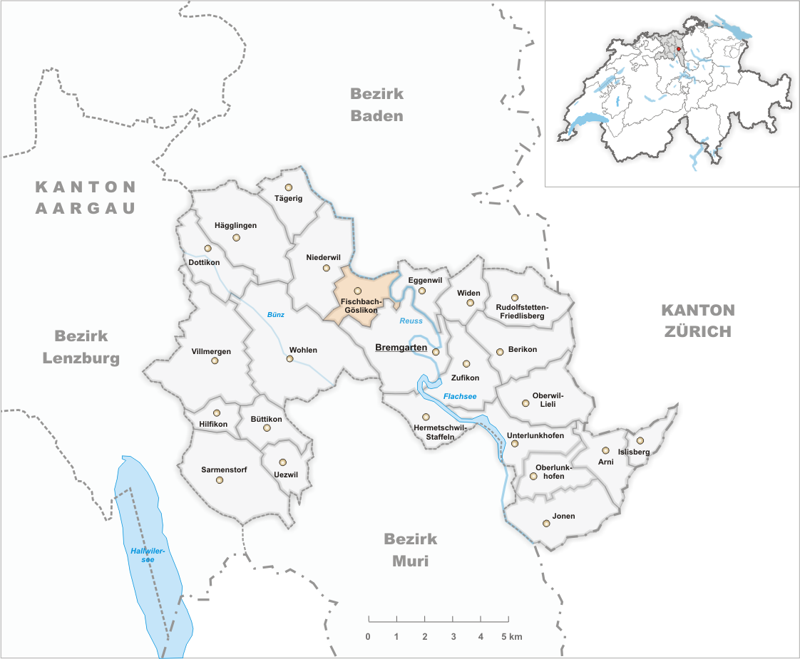 Municipality Fischbach-Göslikon